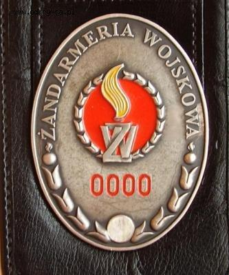 A badge of a Polish Military Police Officer with the 4 digit serial number replaced with zeros by me using Microsoft Paint. Under the Polish copyright law the image of the MP badge is not subject to copyright as an "official symbol" and the photo itself is also not copyrighted as it has no artistic value.